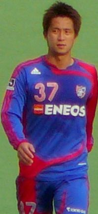 Takashi Fukunishi from FC Tokyo